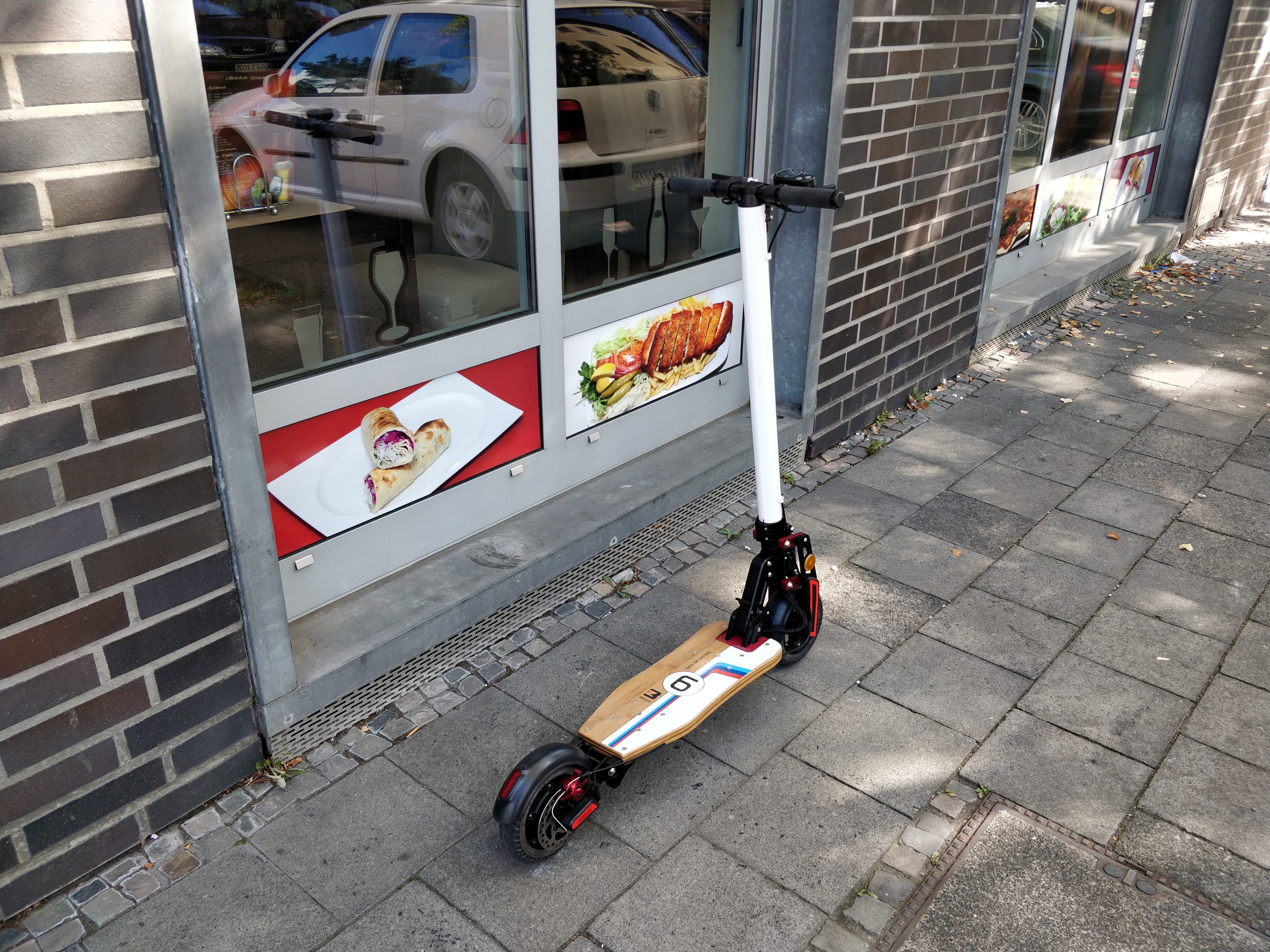 ZUKBOARD CITY, world's first electric scooter with hybrid suspension